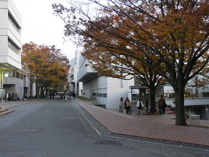 Osaka University of Arts, street view.